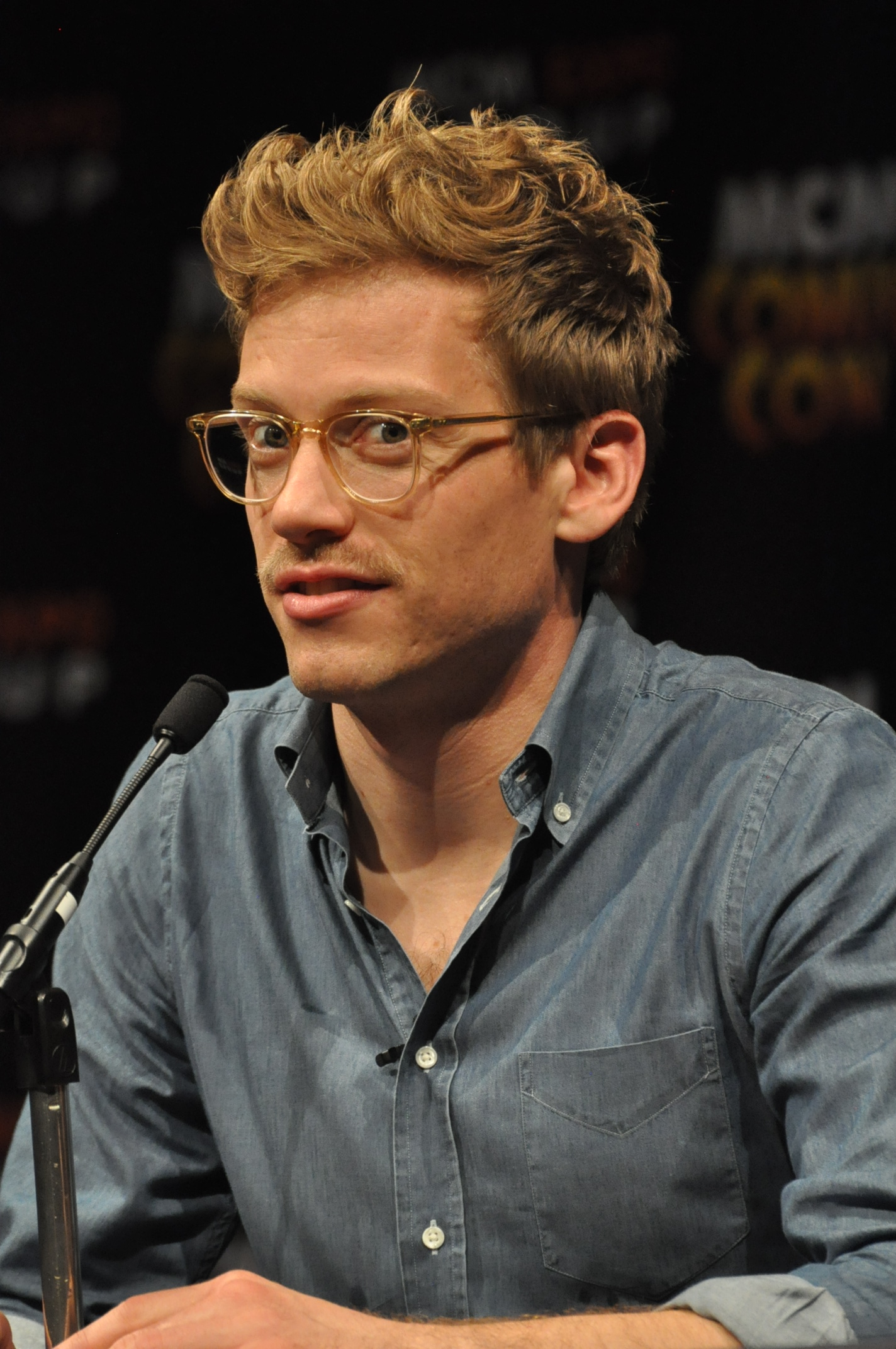 DSC_0784 MCM London Comic Con, NCIS Panel with Barrett Foa and Renée Felice Smith.